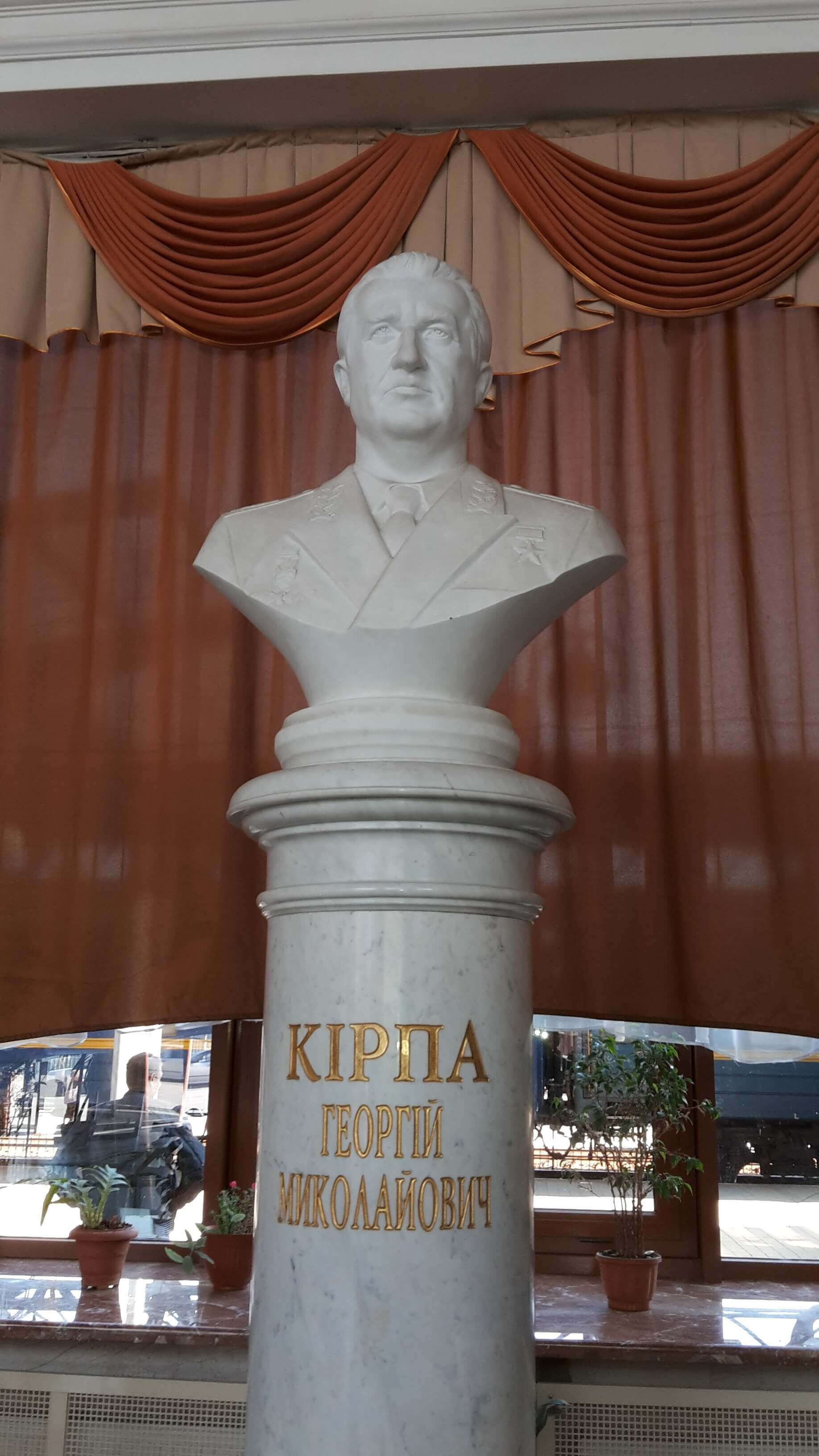 Heorhiy Kirpa statue inside Uzhhorod Uzhhorod railway station as photographed in summer 2017